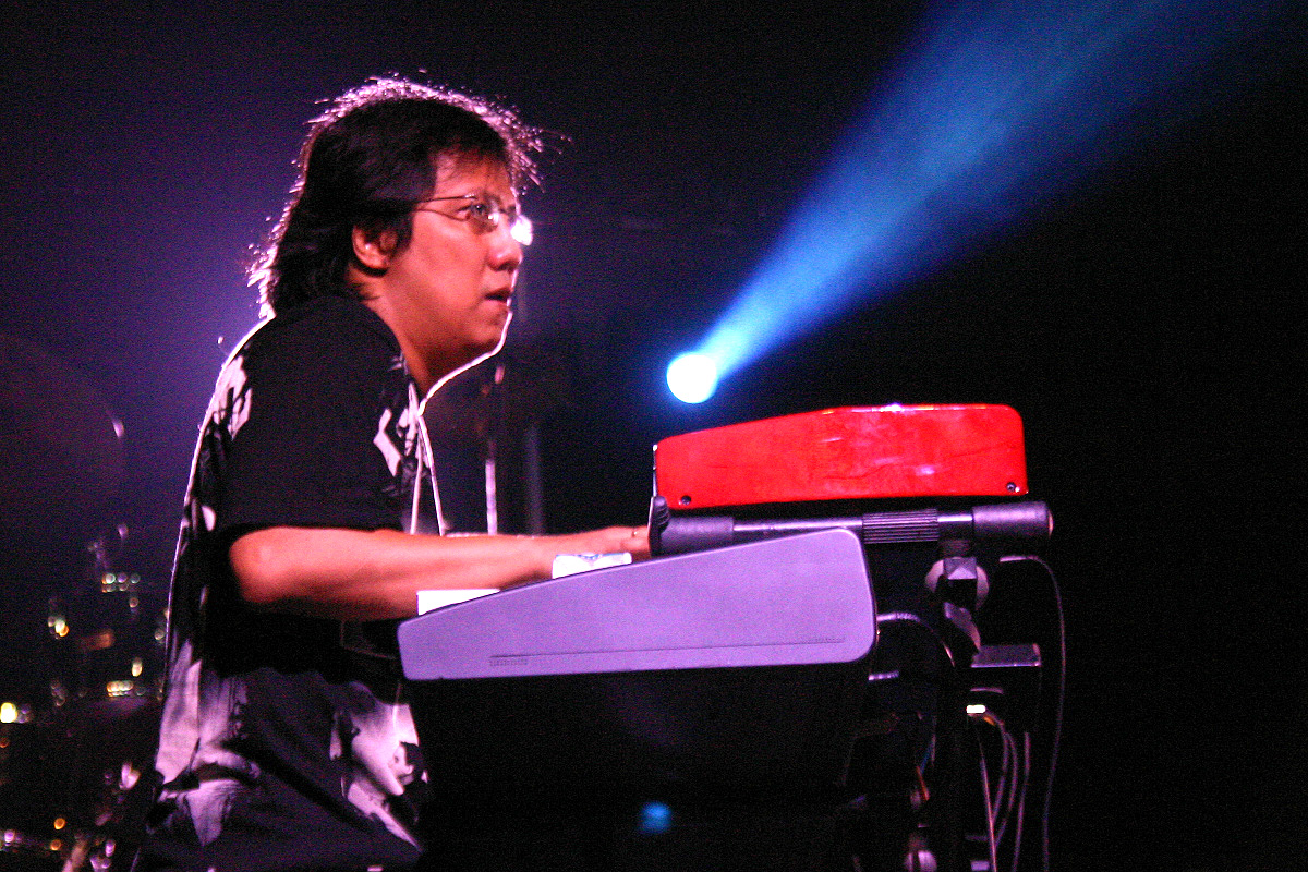 Krisdayanti Concert in Suntec, Singapore, 26 June 2004